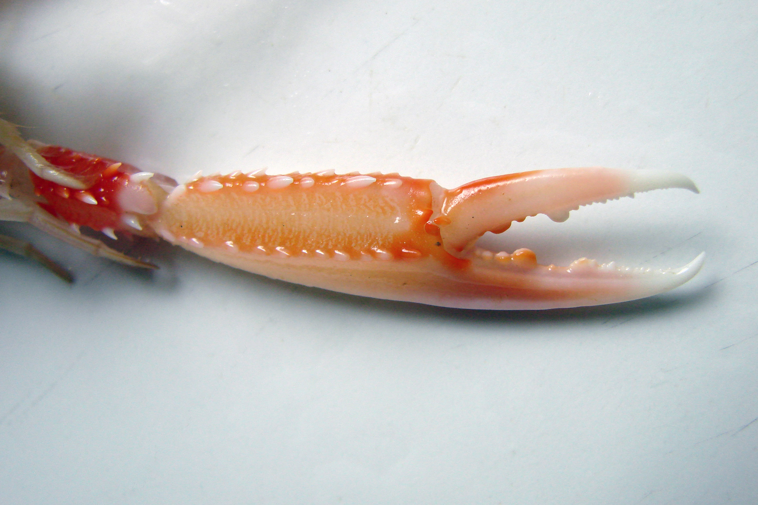 Nipper of a living Norway lobster (Nephrops norvegicus).